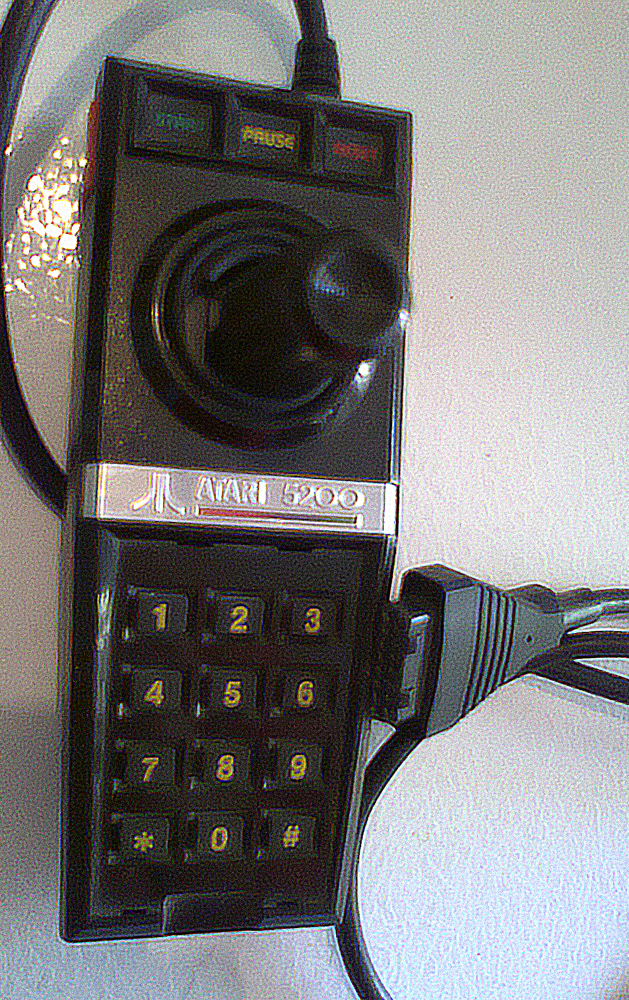 Control of the Atari 5200 that I just got Mojica